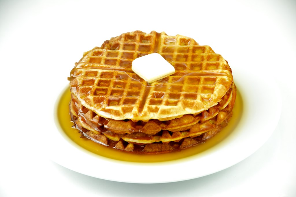 Waffles with maple syrup and butter on a white plate and shot on a white background